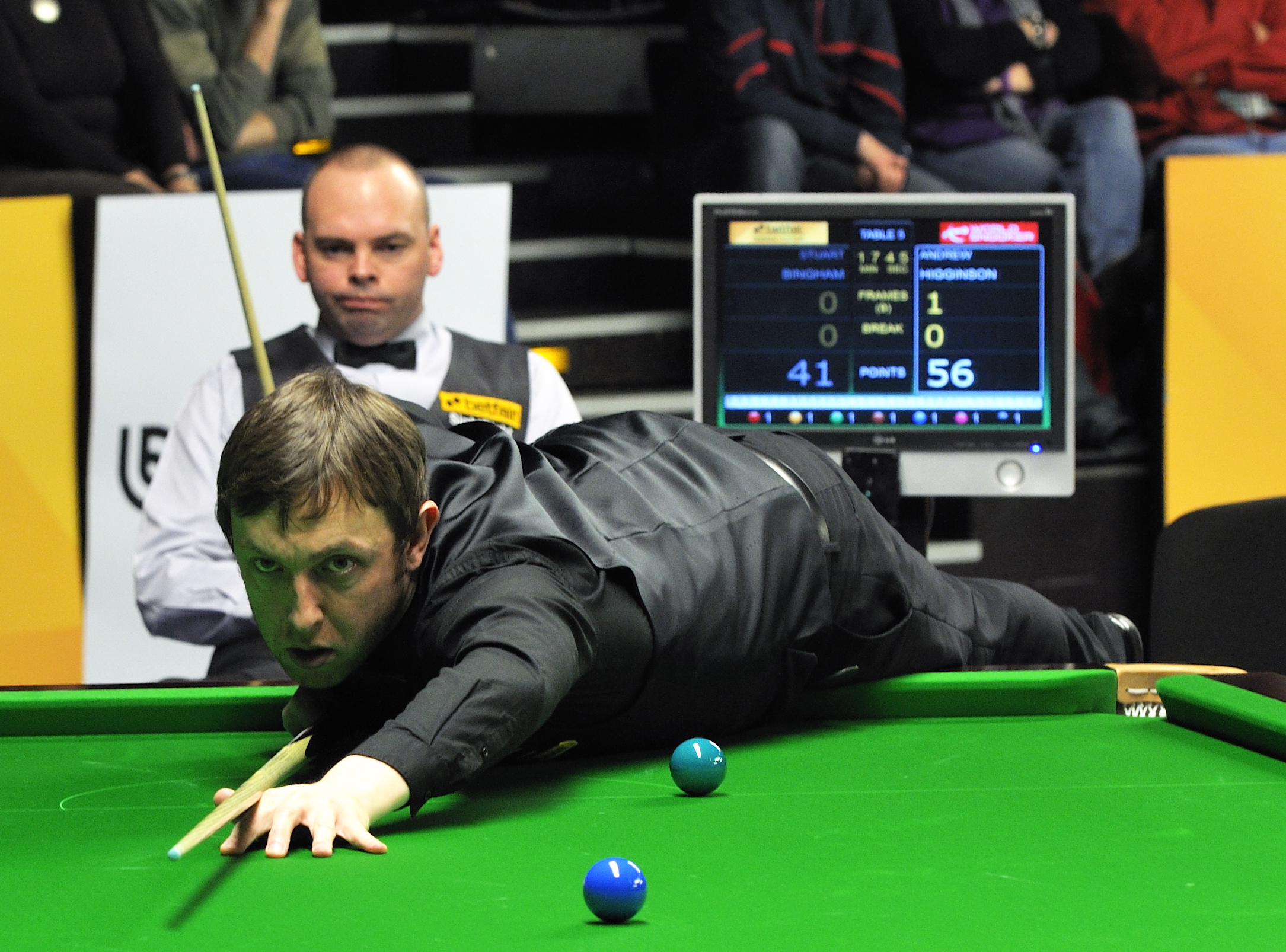 Picture taken in Berlin during the Snooker German Masters in 2013. Andrew Higginson, Stuart Bingham.